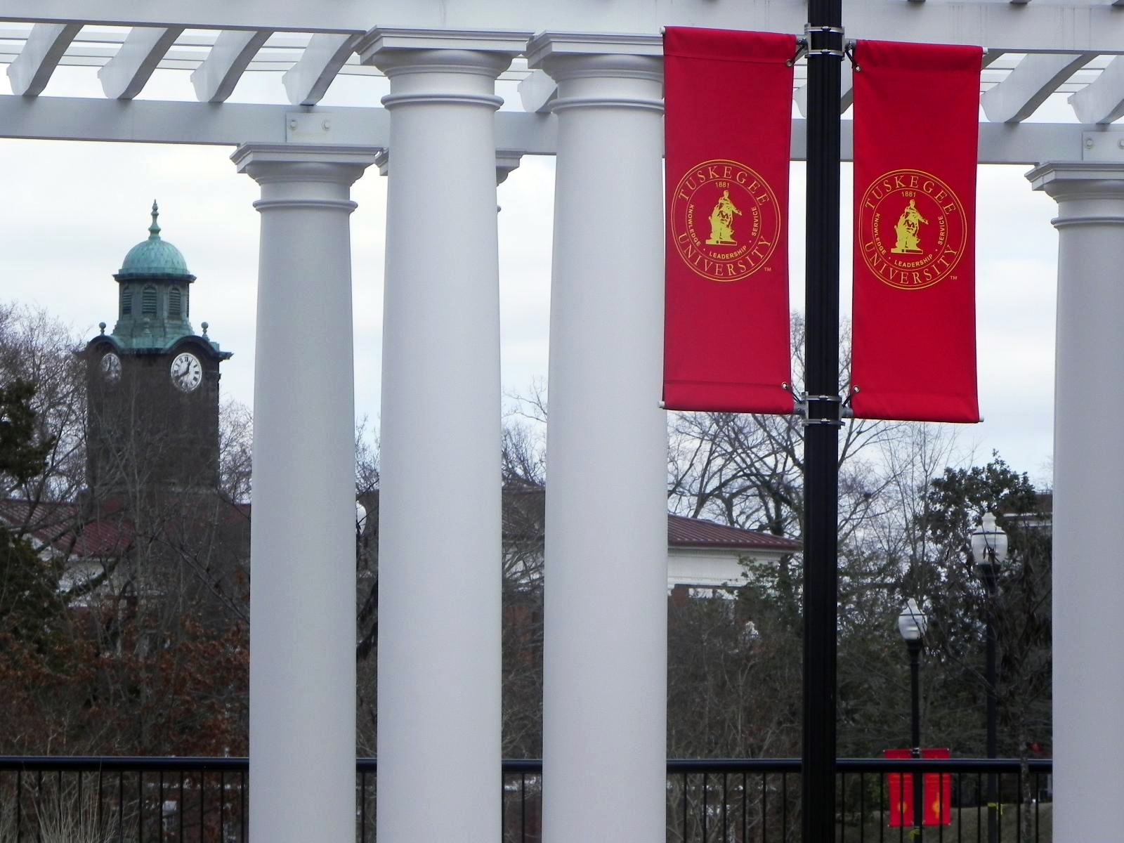 A view of the Tuskegee University campus -White Hall bell tower- 2012